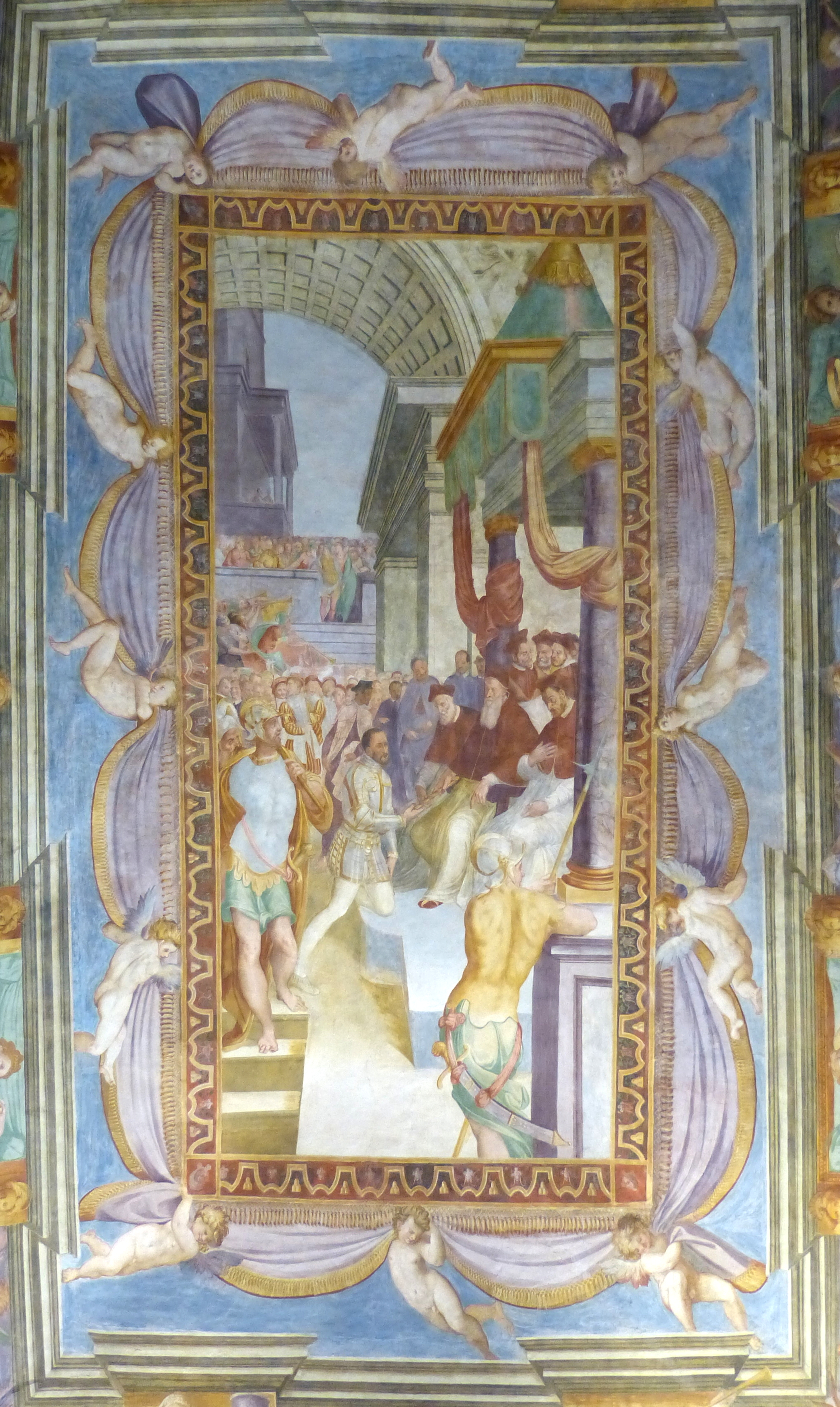 Castiglione del Lago ( Umbriia ). Corgna palace (1563 ) - Great hall: Fresco at the ceiling by Pomarancio - detail: Pope Iulius III declares Ascanio della Corgna guardian of the Church.